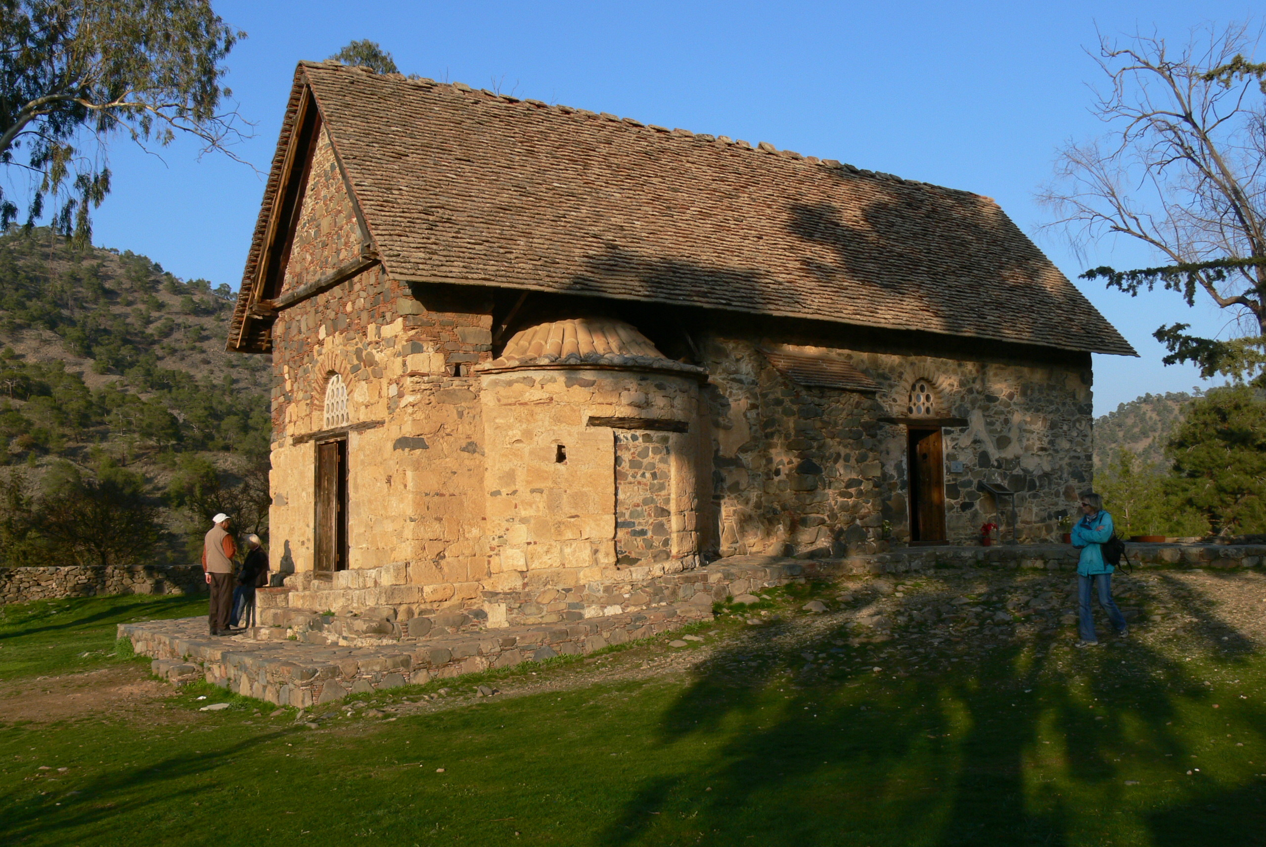 Asinou ( Cyprus ). Panagia Phorbiotissa church ( 12th century ).